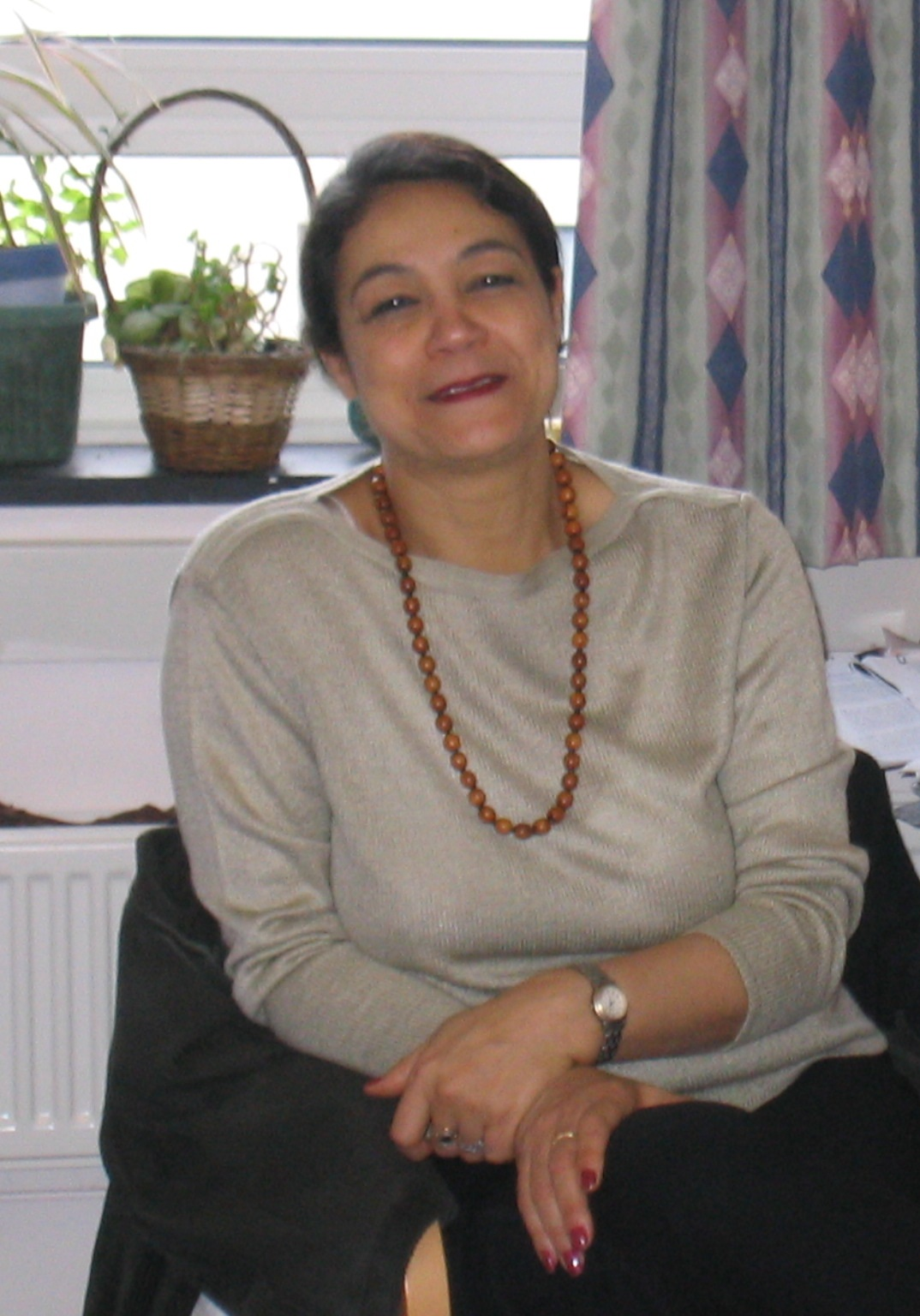 Photograph of Dr. Islah Jad